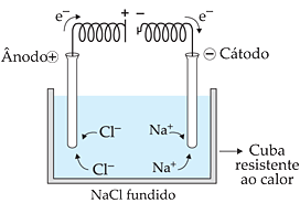 Eletrólise ígnea do Cloreto de Sódio